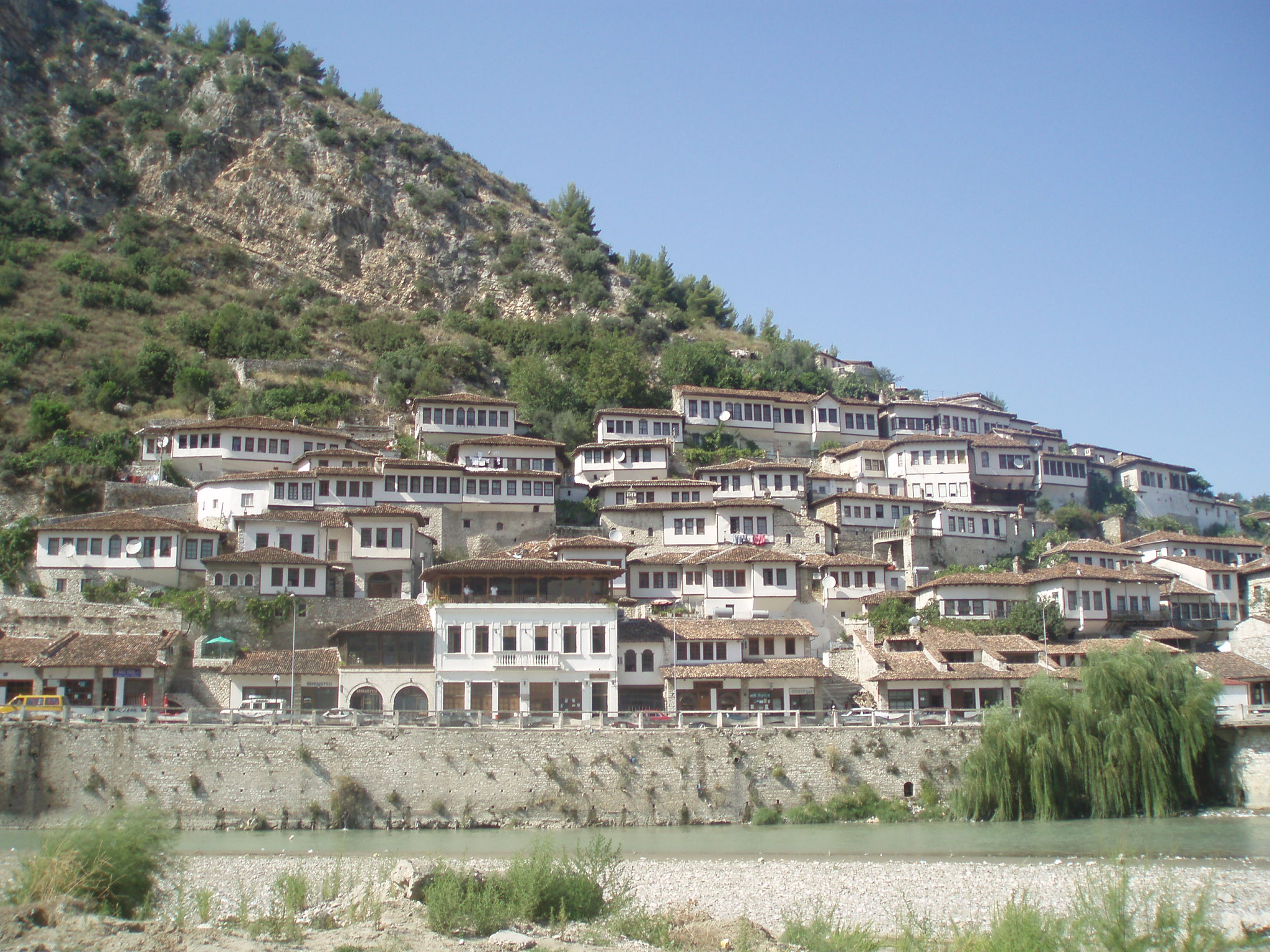 Mangalem, old part of Berat, Albania